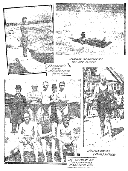 Photo montage of the L Street Brownies published in the Boston Globe, December 21, 1913. "Swimming Races for 'Brownies' Christmas Day"